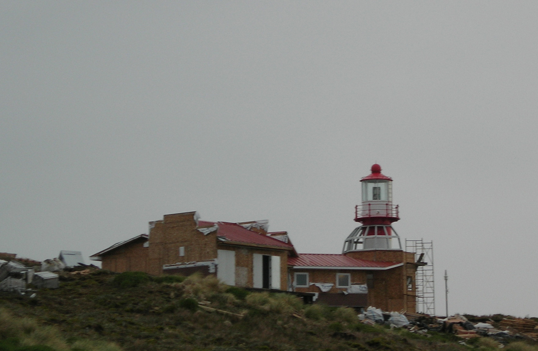 Description = Phare de l'ile Horn ( Chili ) Source =Photo taken by Remi Jouan Date =Avril 2006 Author =Remi Jouan